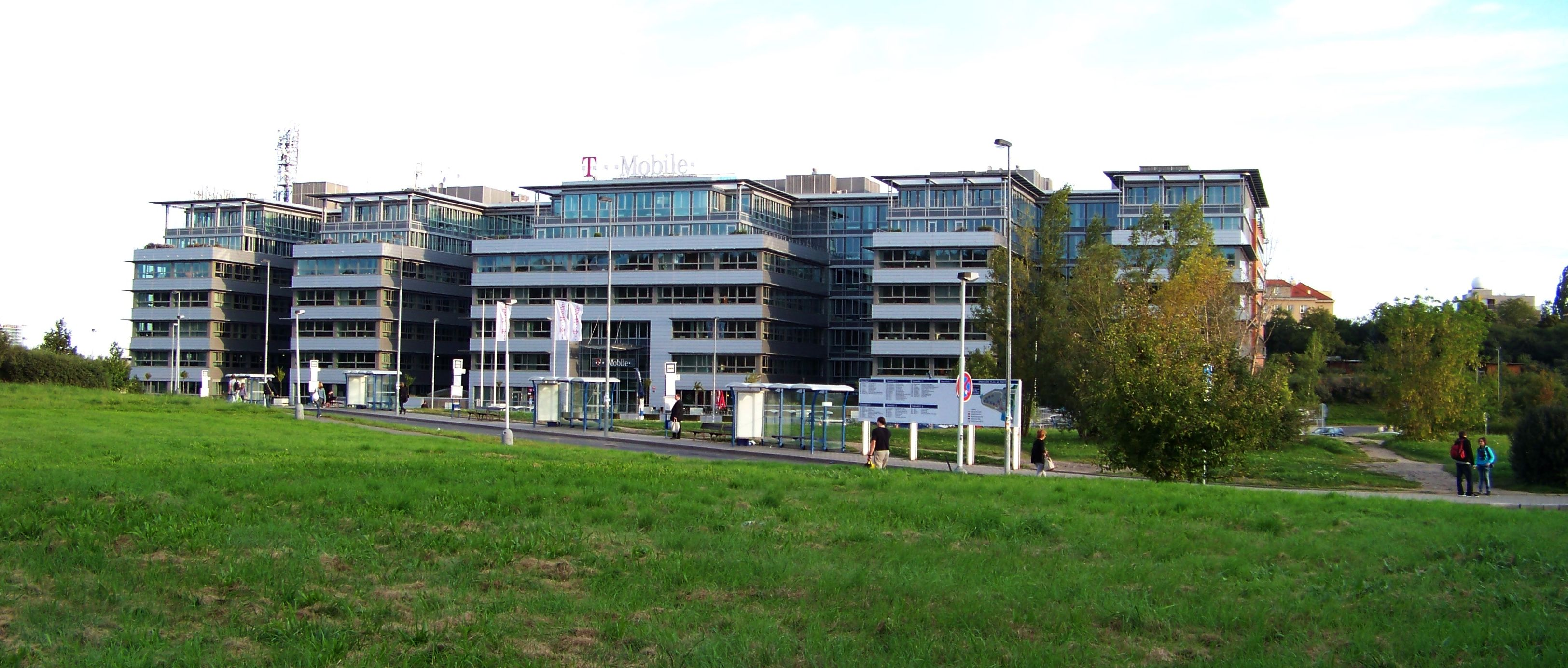 Prague-Chodov, the Czech Republic. Roztyly bus station and T-Mobile building.